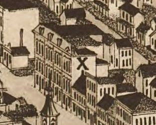 Detail from an 1886 map of Knoxville, Tennessee, USA, showing Staub's Theatre (center) along Gay Street. The theater, Knoxville's first opera house, was built in 1872, and designed by architect Joseph F. Baumann. It was demolished in 1956, and the First Tennessee Plaza is now located at the site. The "X" on the wall was added by the mapmaker to match the theater's listing in the map's legend.